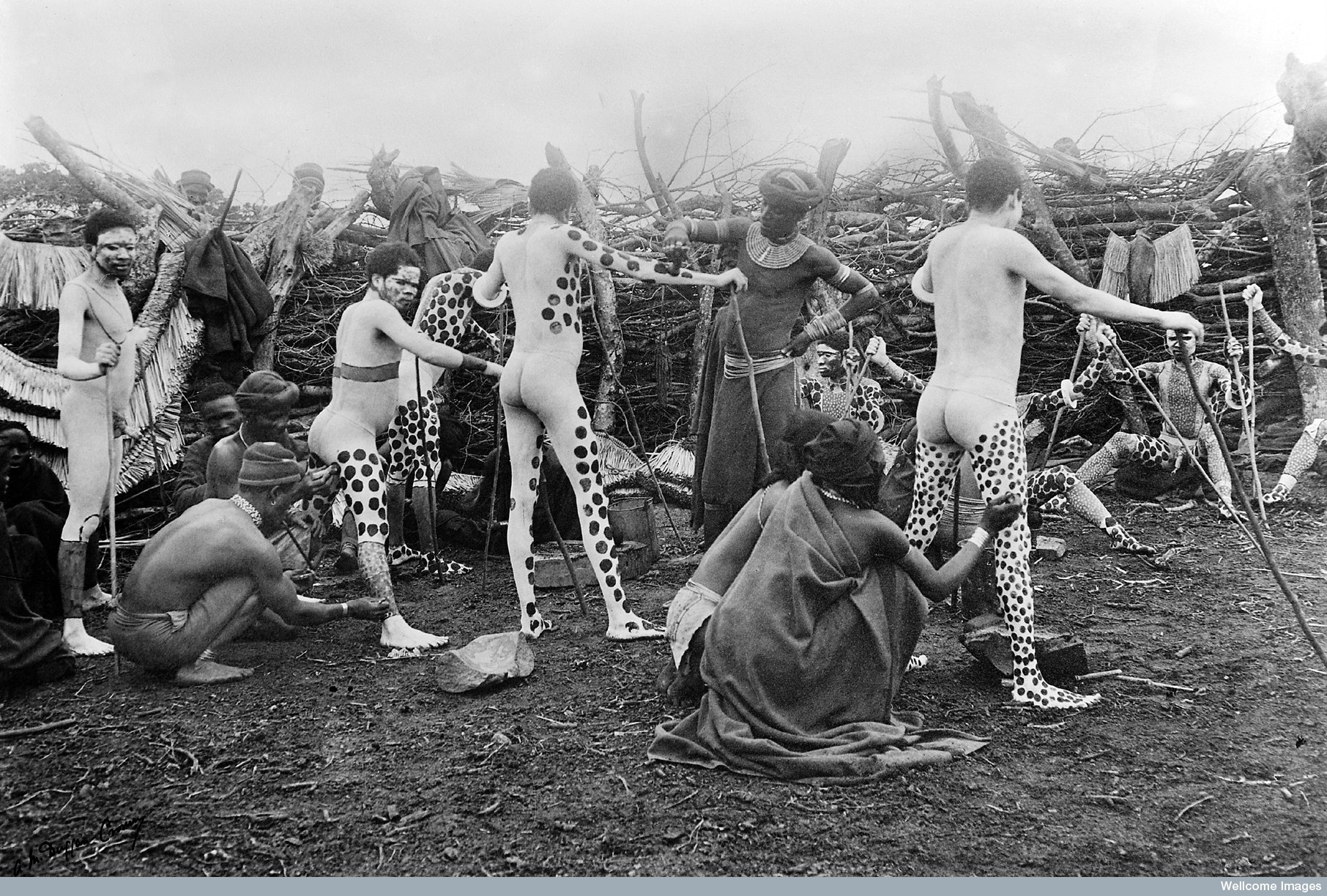 AmaBomvana initiates being painted